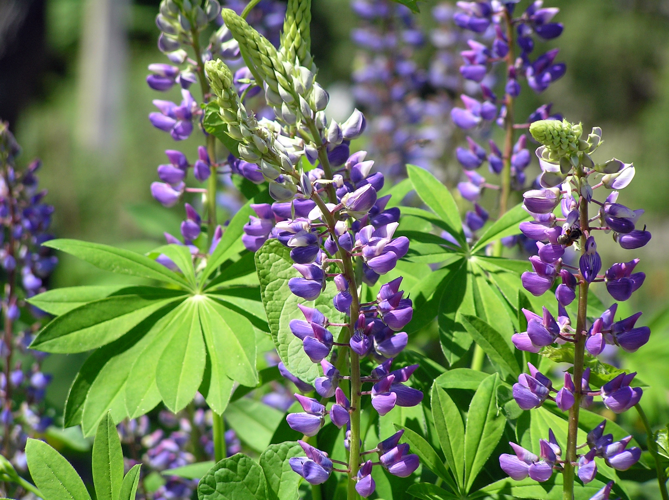 Estonia, Põlva County